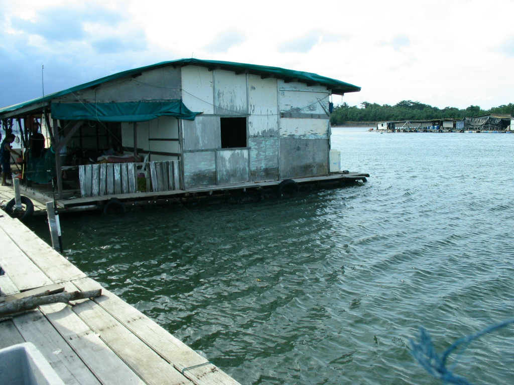 The Kelong